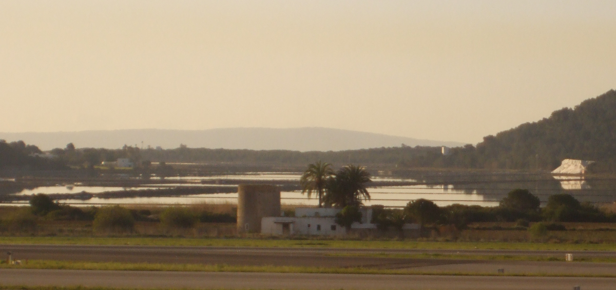 Rural defense tower of Can Toni Rei, Sant Jordi, Eivissa island, Spain